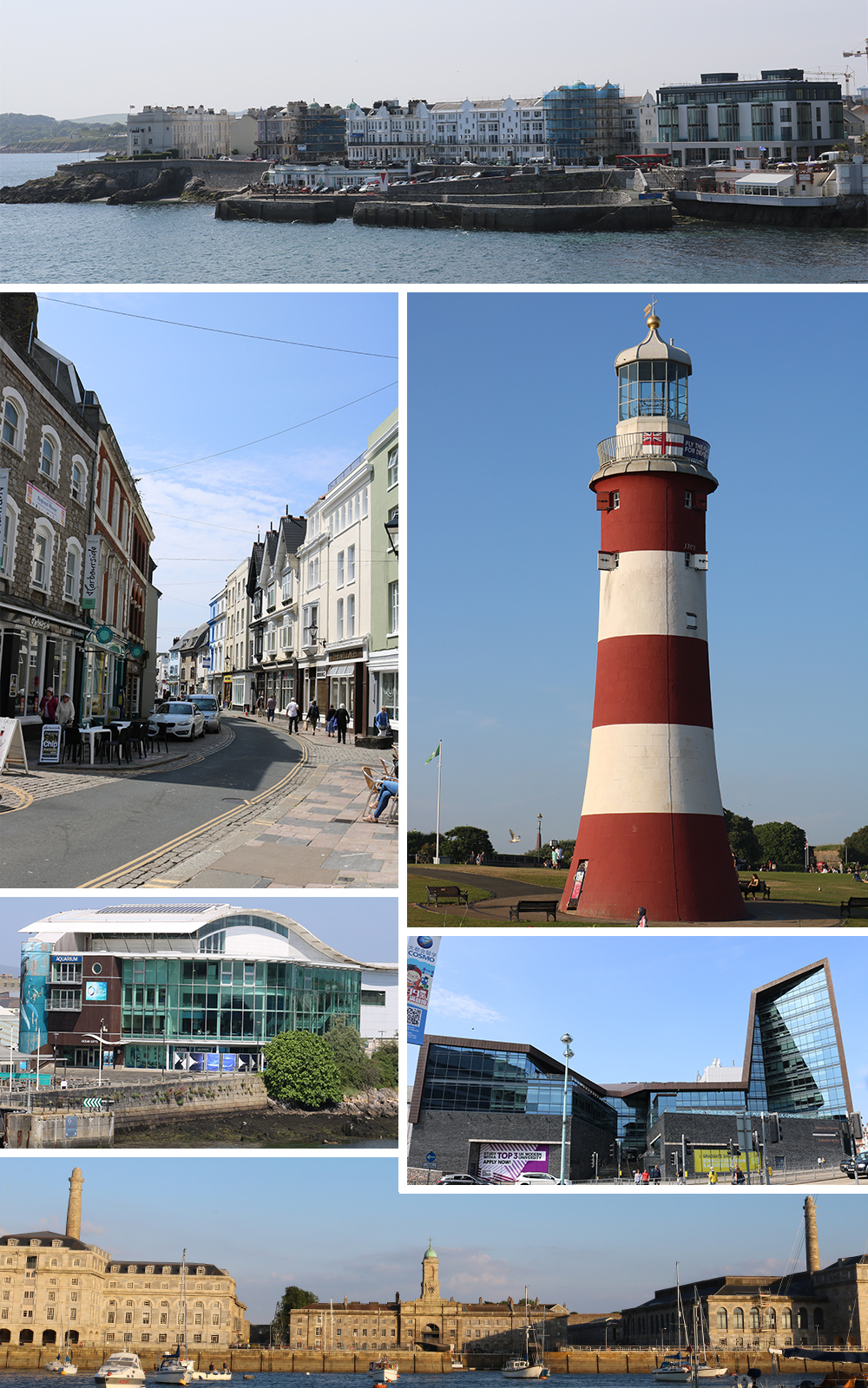 Collage of pictures from around Plymouth.